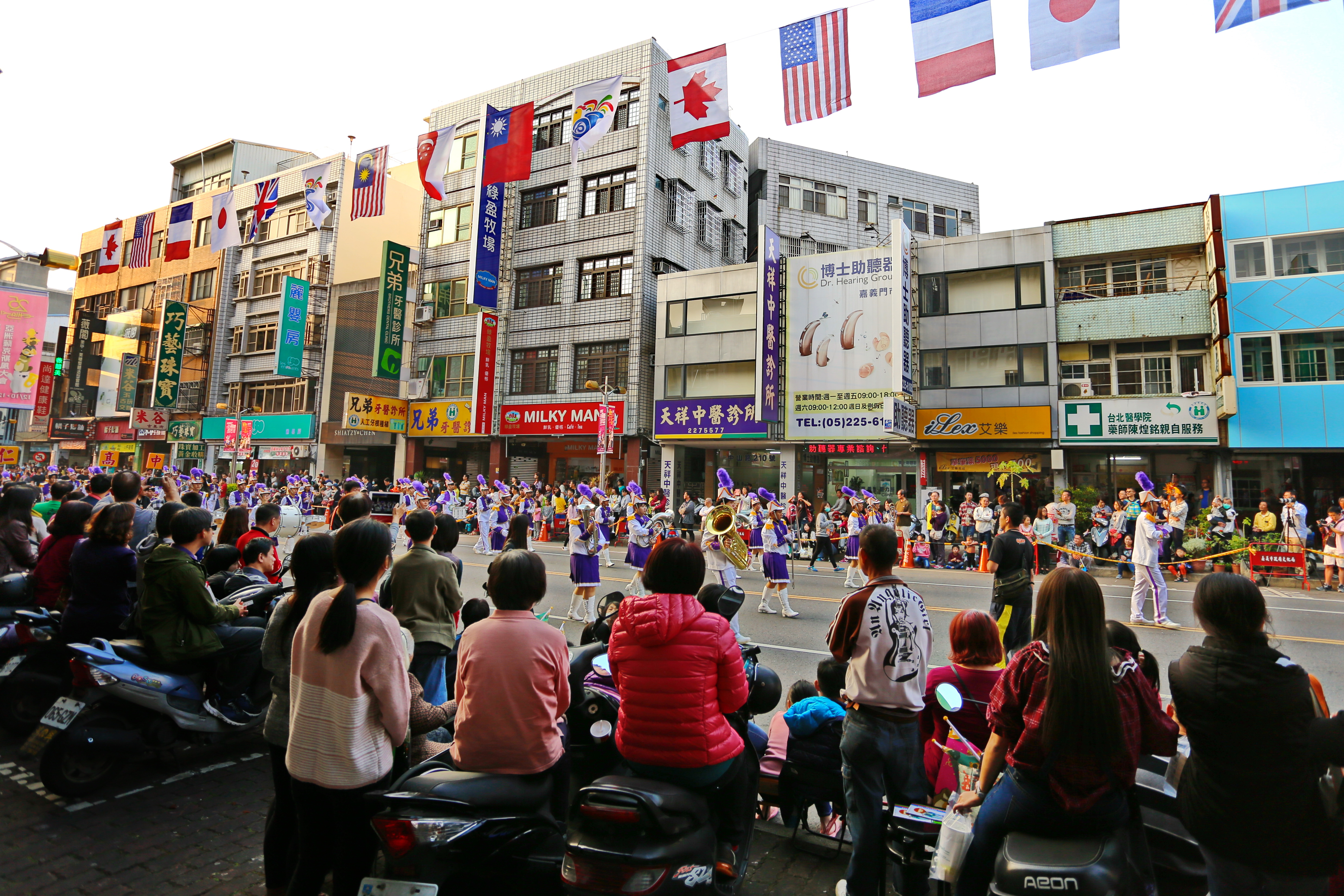 2016 Chiayi City International Band Festival, marching bands at Zhongshan Road, Chiayi City, Taiwan.